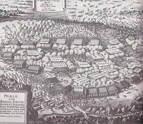 Battle of Breitenfeld 1631. part of original.